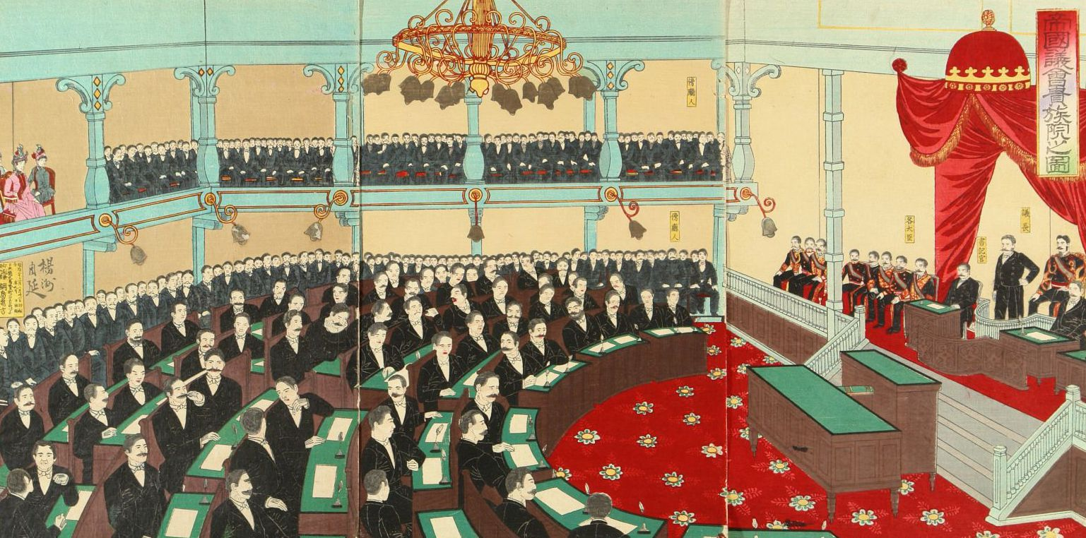 A Scene in the House of Peers